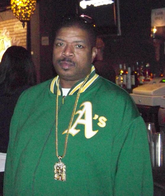 Depicted person: Diamond D – American music producer